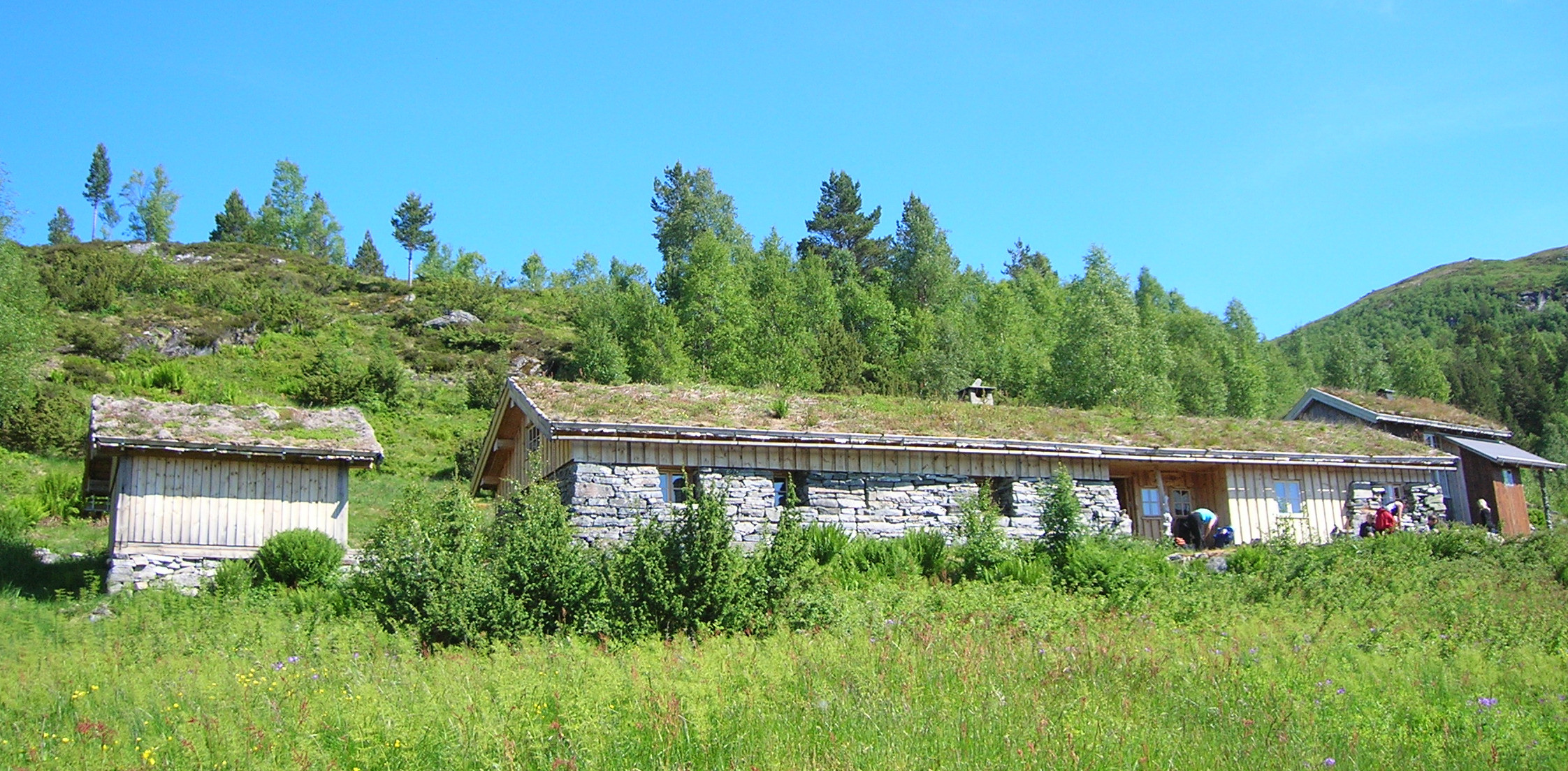 Sollia, turisthytte i Hemne (Mountain cabin in Hemne)